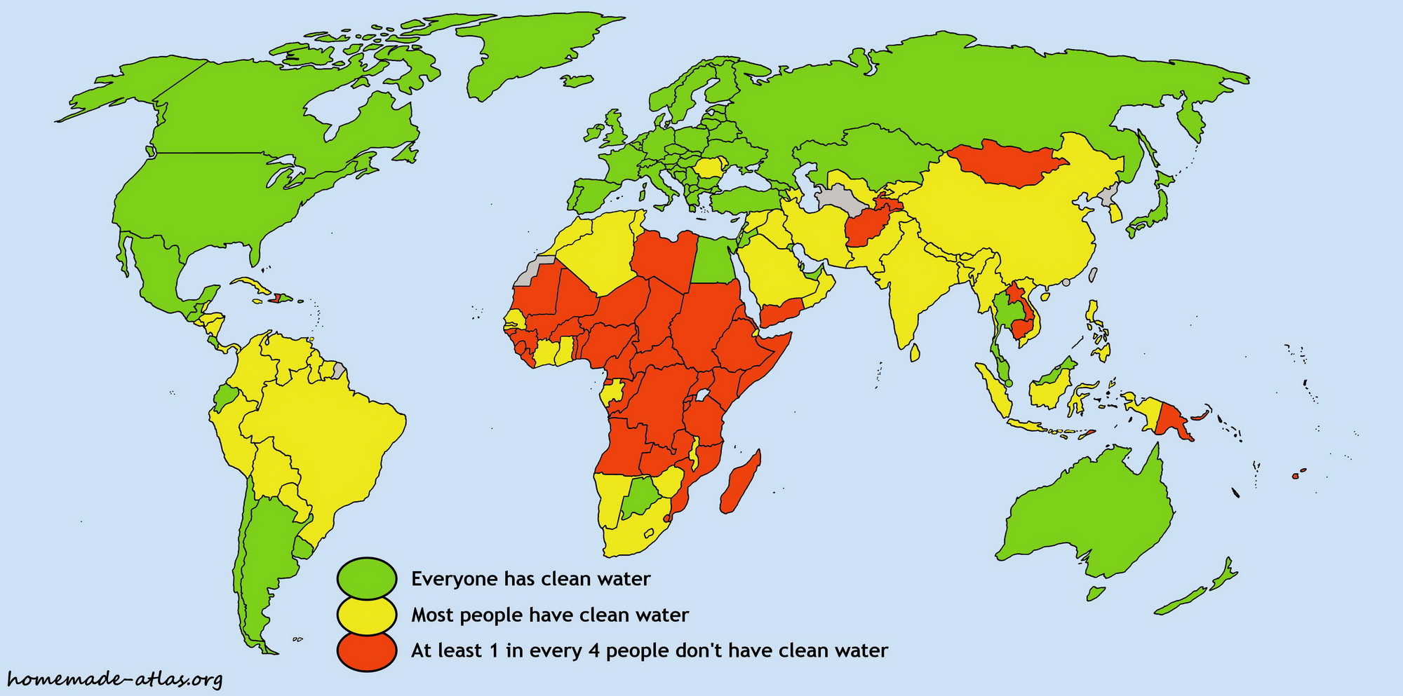 Population that uses improved water sources as percent of total population. Green: 100-95; yellow: 75-94.9; red: 74.9 and below. Source: UNDP. Data as of 2006